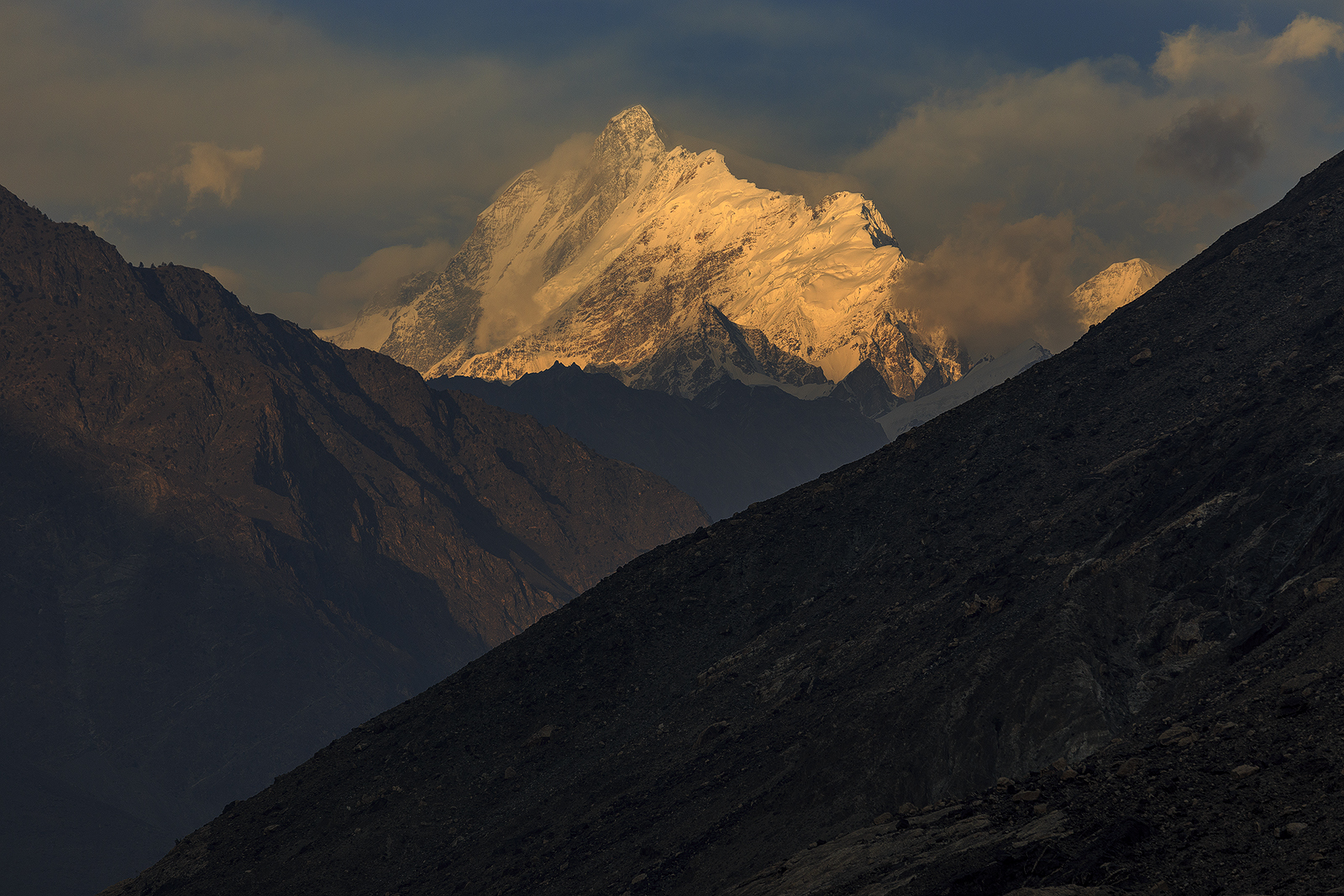 Malubiting at sunset captured from Skardu-Gilgit road.